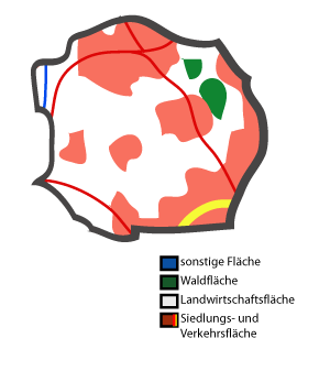 Land use in Hiddenhausen